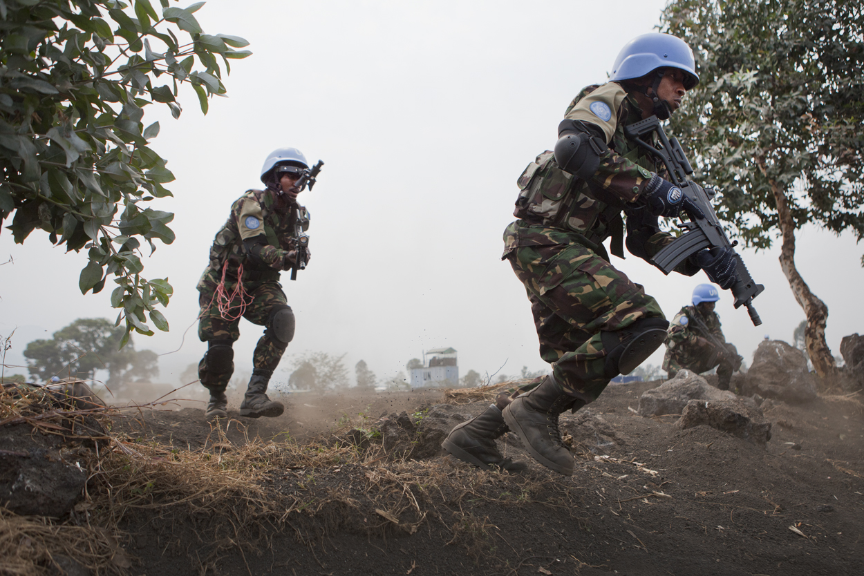 FIB Tanzanian special forces during training, Sake, the 17th of July 2013. © MONUSCO/Sylvain Liechti